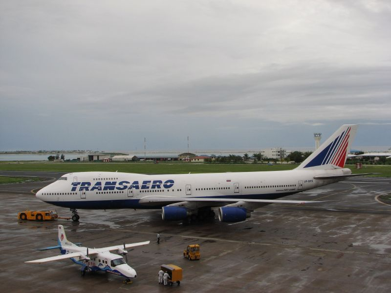 Transaero Boeing 747-200 and Island Aviation Dornier 228 at Male International Airport